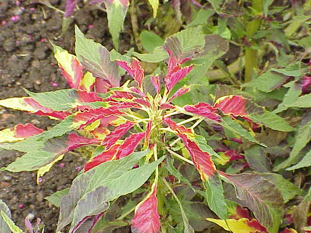 Species: Amaranthus tricolor Family: Amaranthaceae Image No. 5